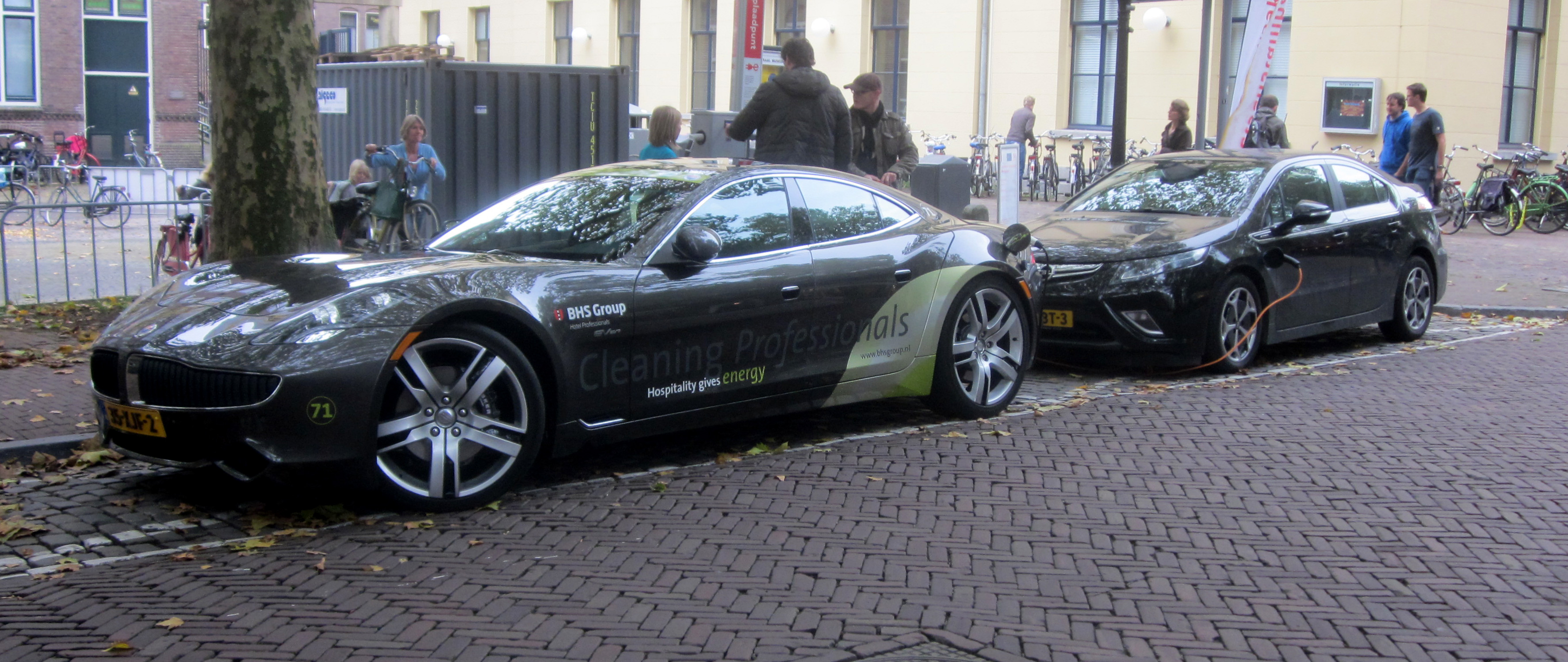 A Fisker Karma and an Opel Ampera at the chargingstation Utrecht at the Mariaplaats.